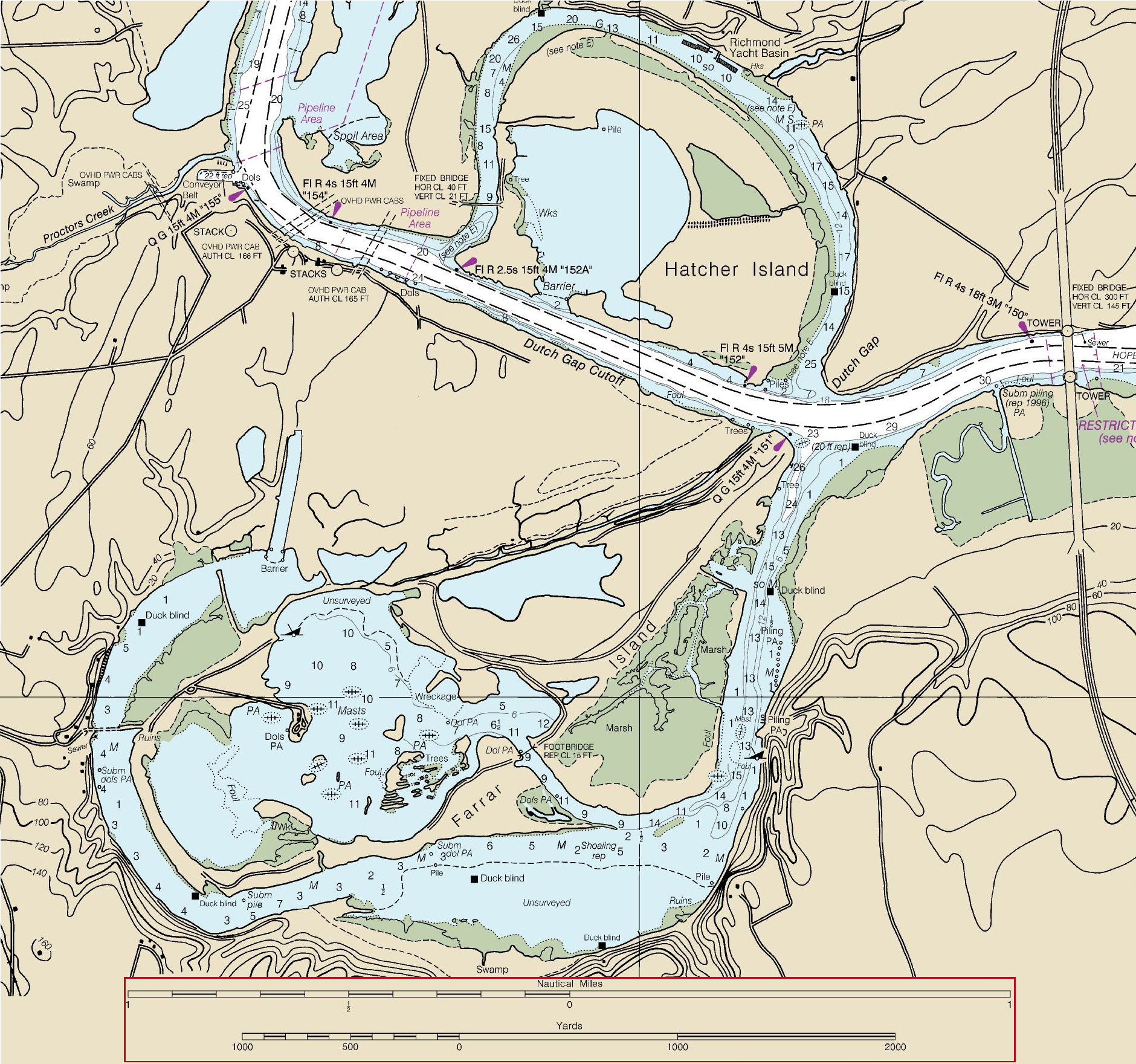 This map was adapted from NOAA Chart 12252. It has been modified for use in Wikipedia to illustrate area around the Dutch Gap Canal on the James River in Virgina.